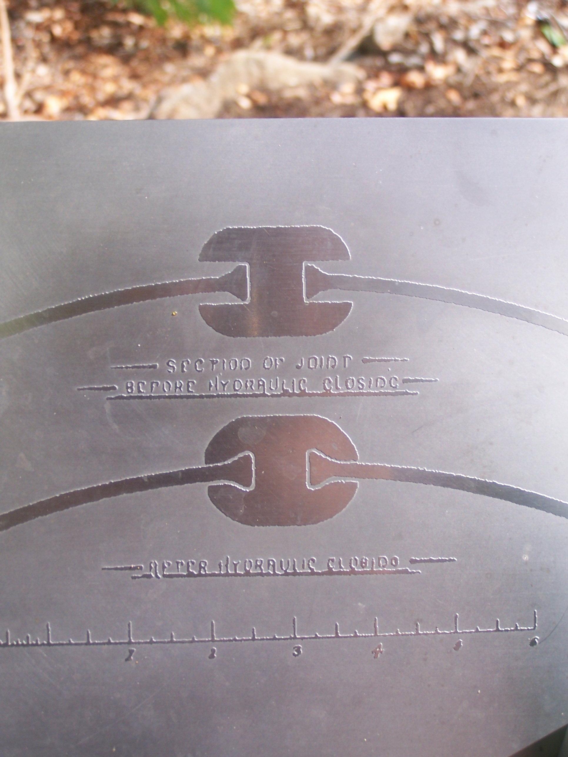 plaque showing the rivetless joint created by Mephan Ferguson c1890's. The plaque is near the Mundaring Weir where Ferguson supplied 530 kms of pipeline using this joint, the first major pipe project to use a rivetless joint